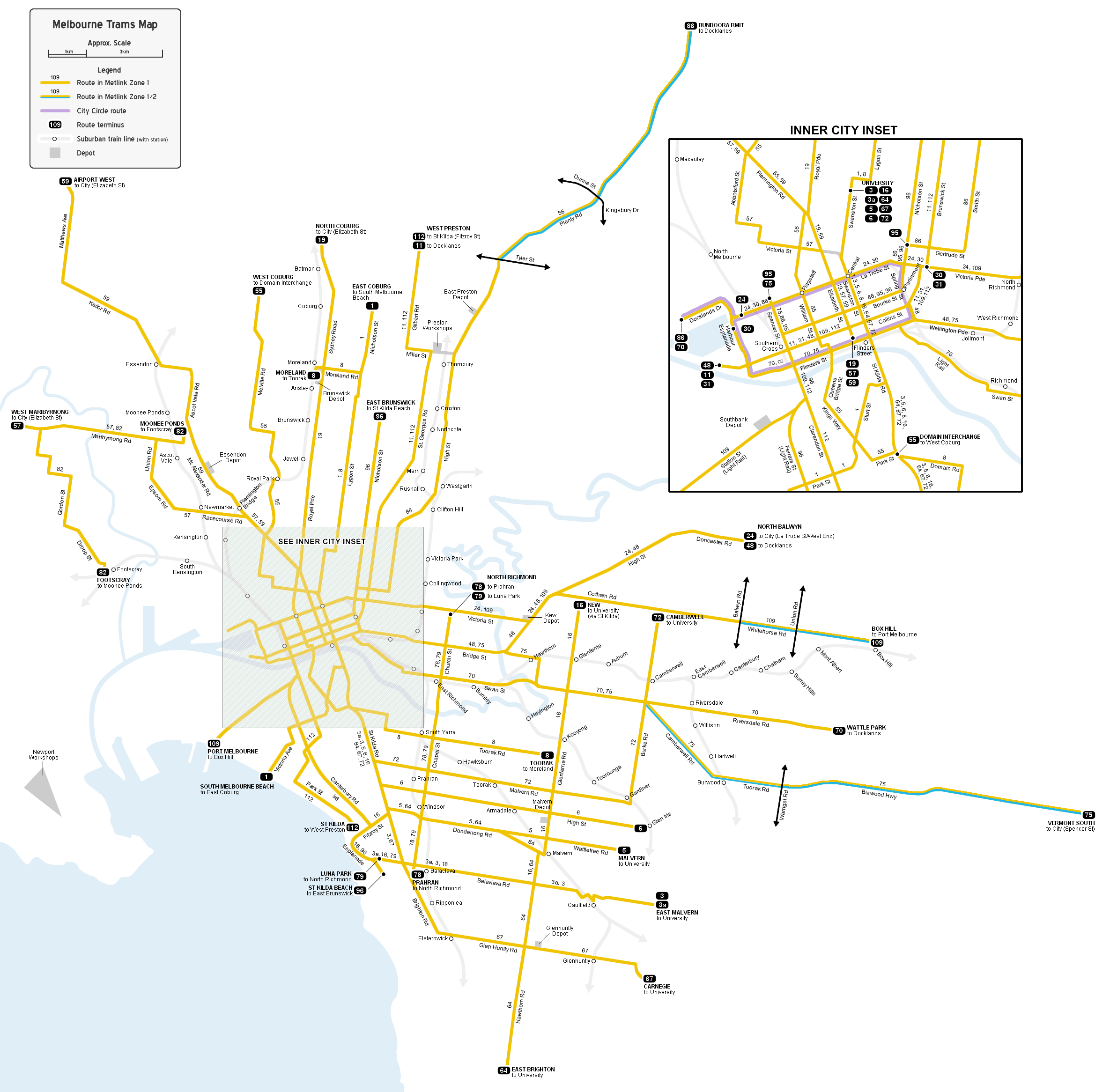 Map of Melbourne's tram network, geographically accurate, to approximate scale.